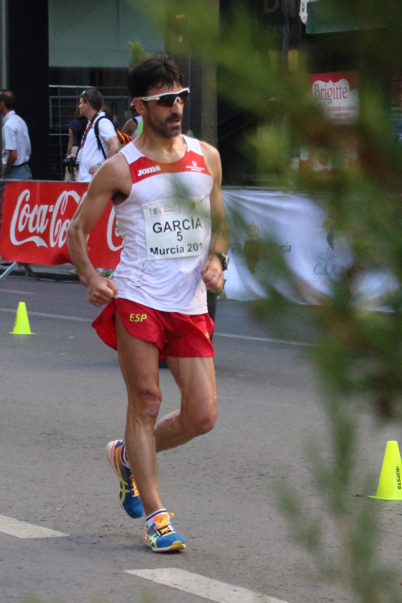 Jesus Angel Garcia Bragado, spanish race walker, in the European Cup Race Walking 2015 (Murcia, Spain).